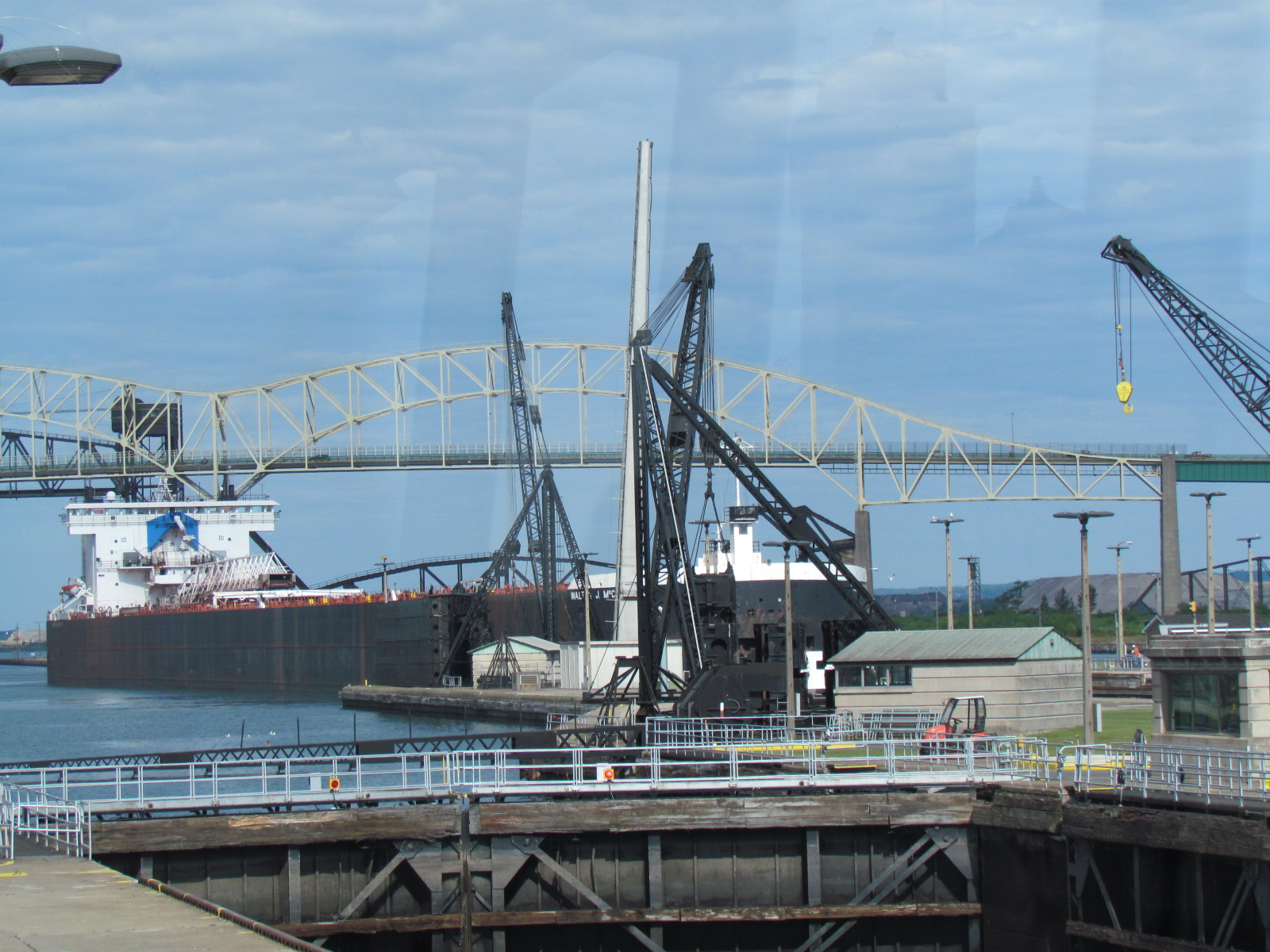 1000-foot lake freighter Walter J. McCarthy, Jr. entering the Poe Lock. Taken from headed into the Poe Lock down bound. Taken from the visitors center at the Soo Locks, July 1, 2012